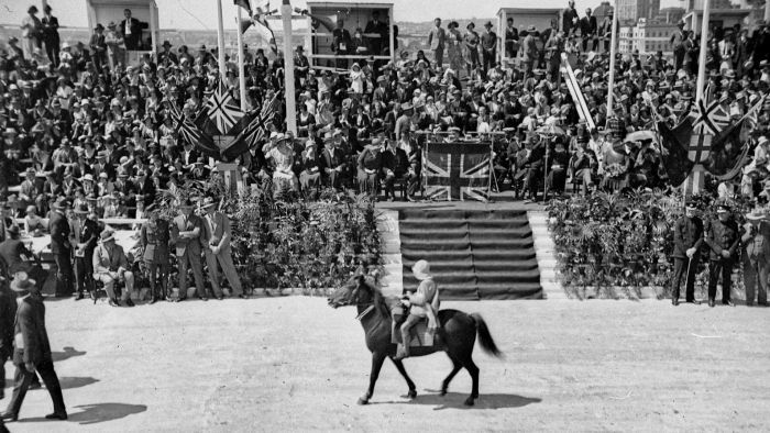 Lennie in the opening parade which is the purpose of his journey.